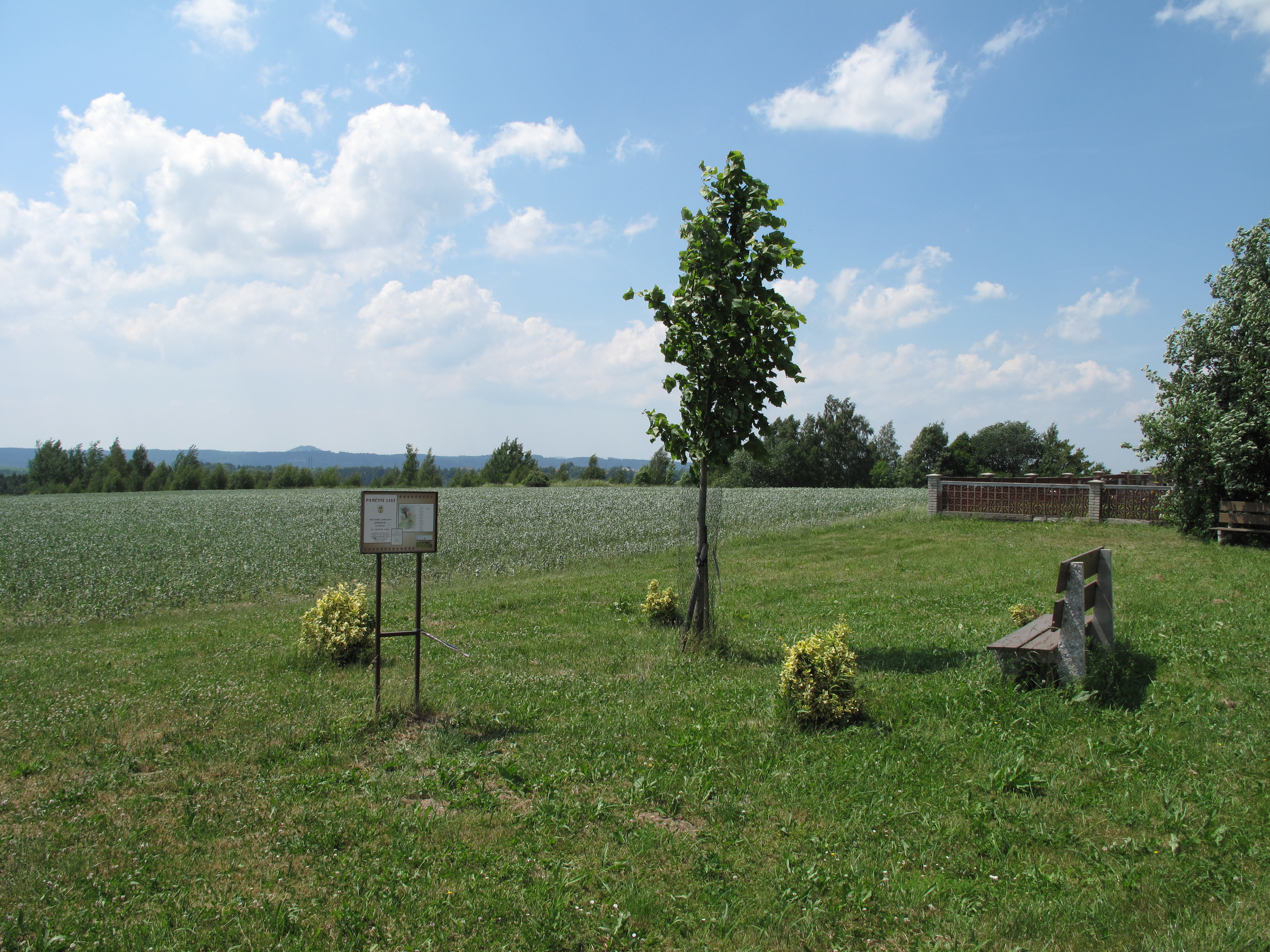 Linden tree (Tilia platyphyllos x euchlora) in Tatobity village, Semily District, Czech Republic.